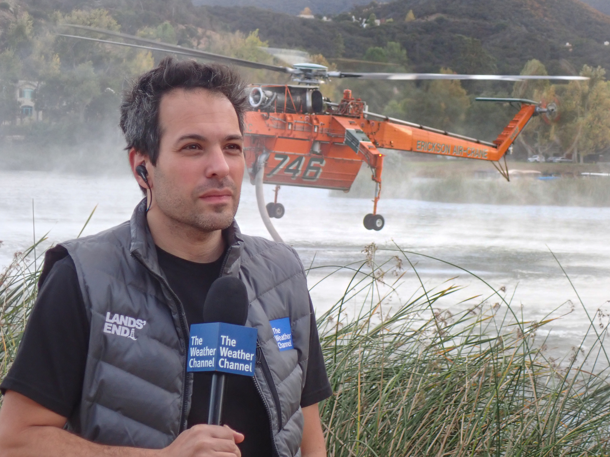 Dave Malkoff reporting from Southern California during wildfire coverage in 2018